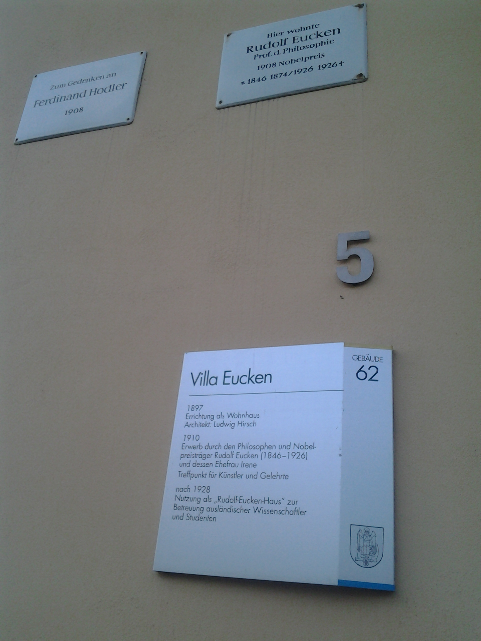 Plaques honouring German Nobel prize winner Rudolf Eucken at his house in Jena, Botzstr. 5